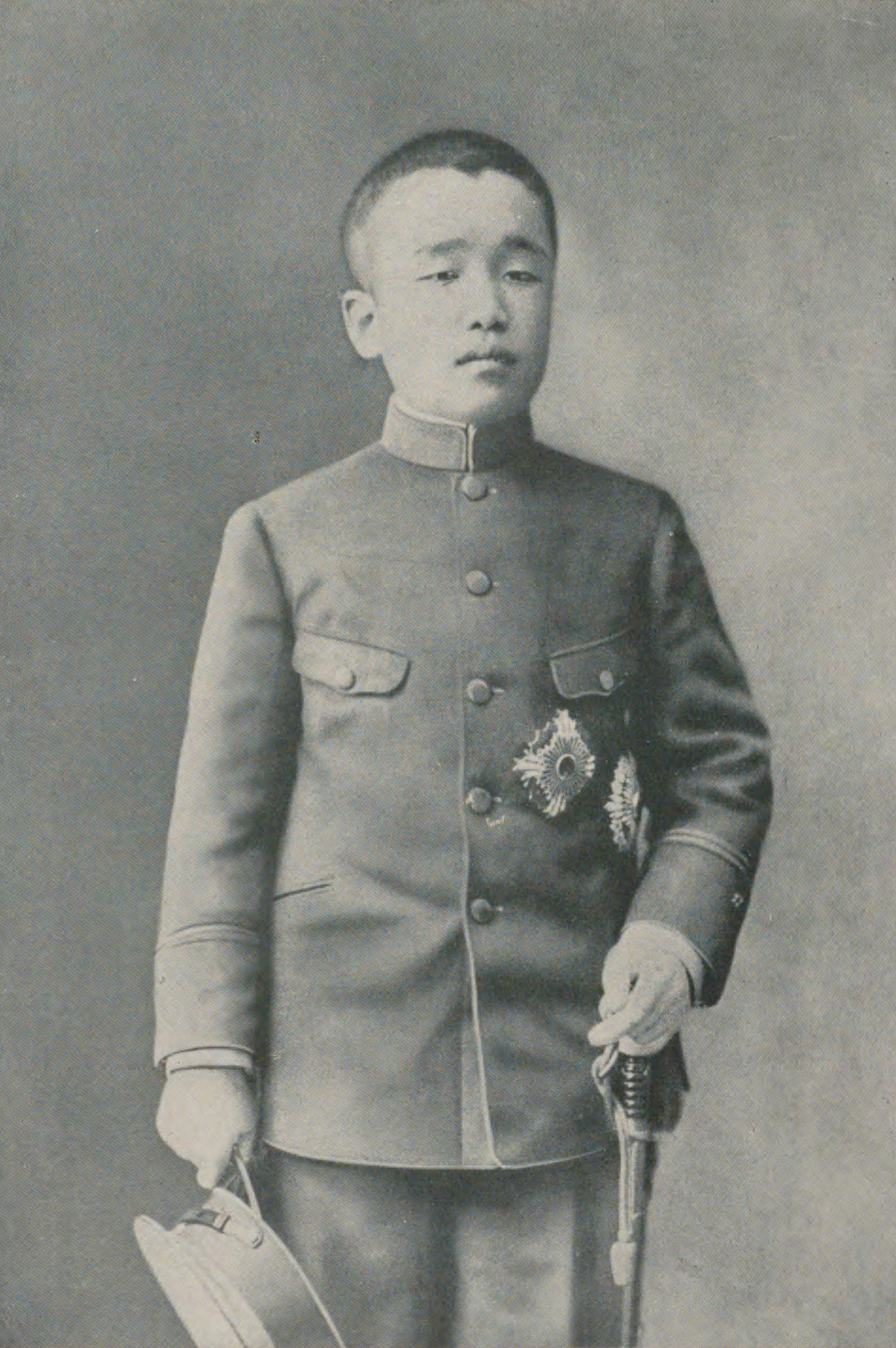 Crown Prince of Korea Yi Un